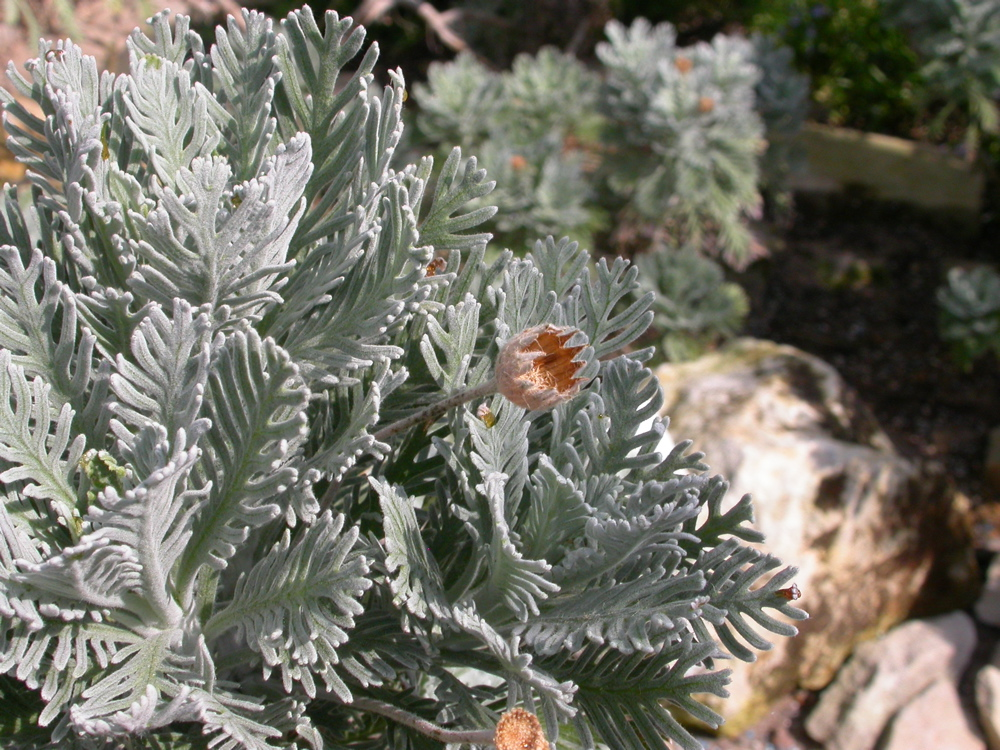 Euryops pectinatus